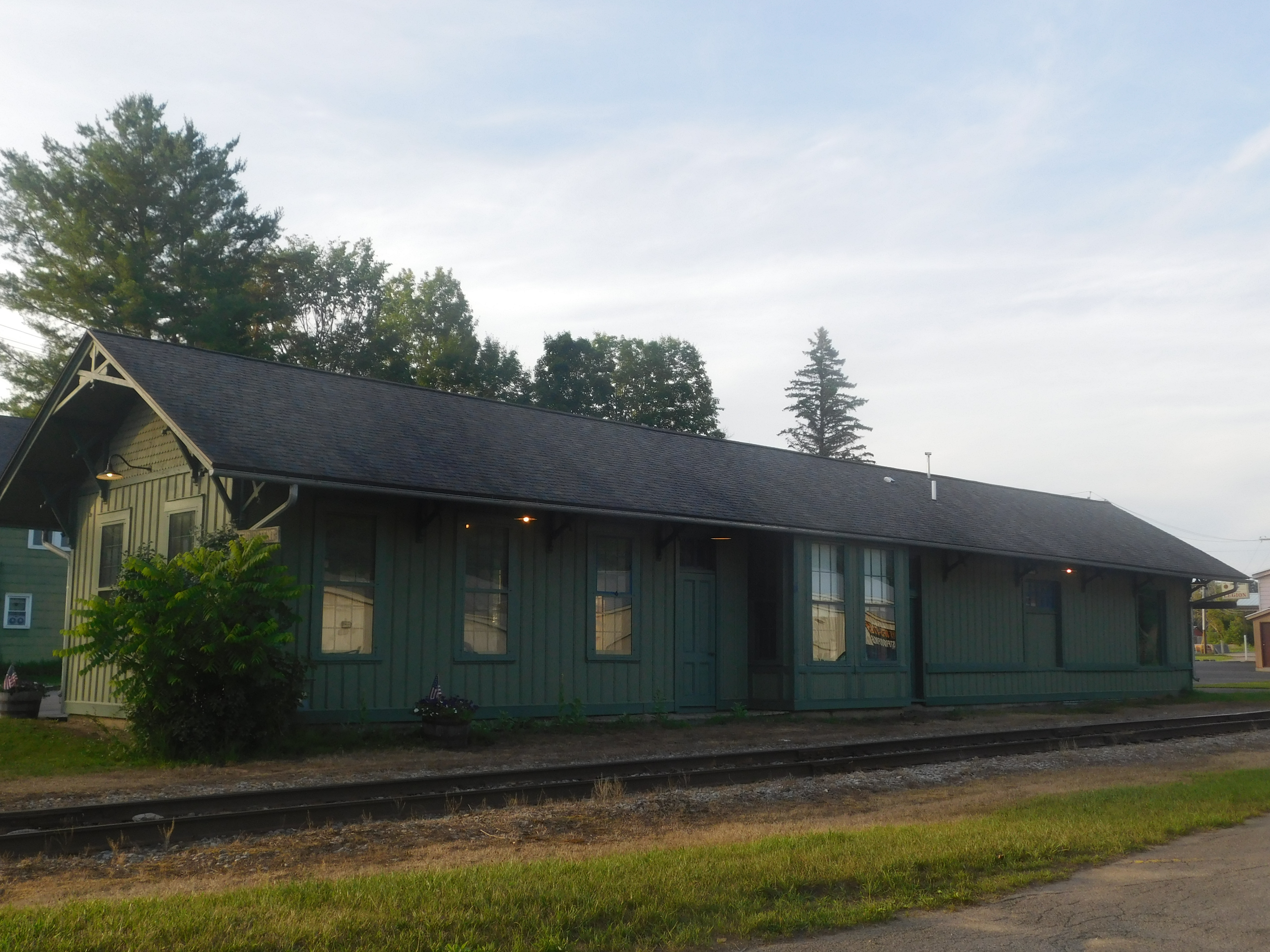 Holland Patent station of the New York Central Railroad in July 2020. The station is now used by the Adirondack Scenic Railway.